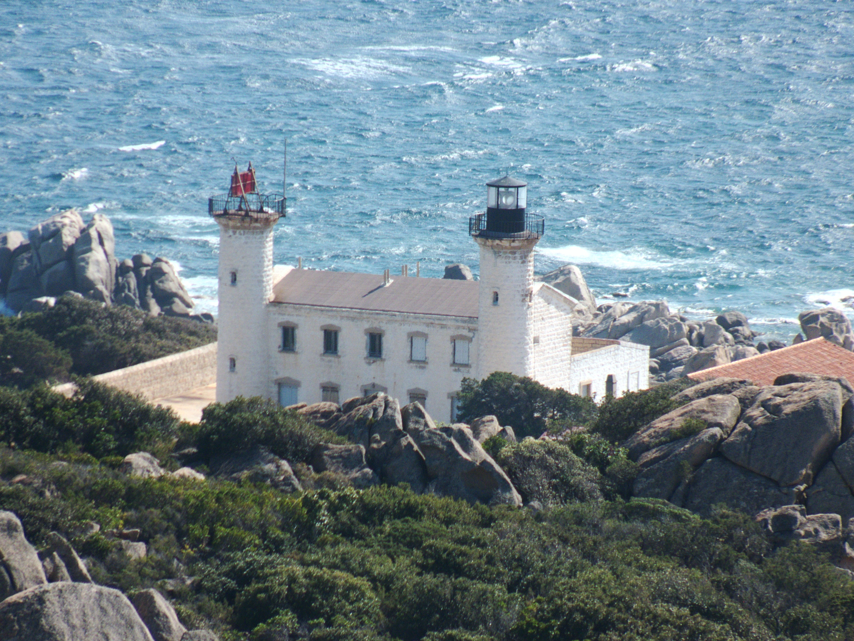 Lighthouse of Senetosa (Corse-du-Sud), as seen from the genoese tower of Senetosa.